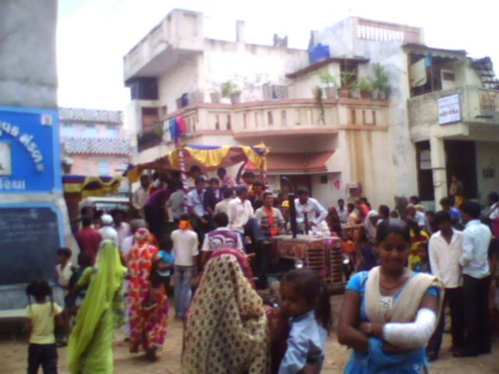 Rathyatra at Gozaria.